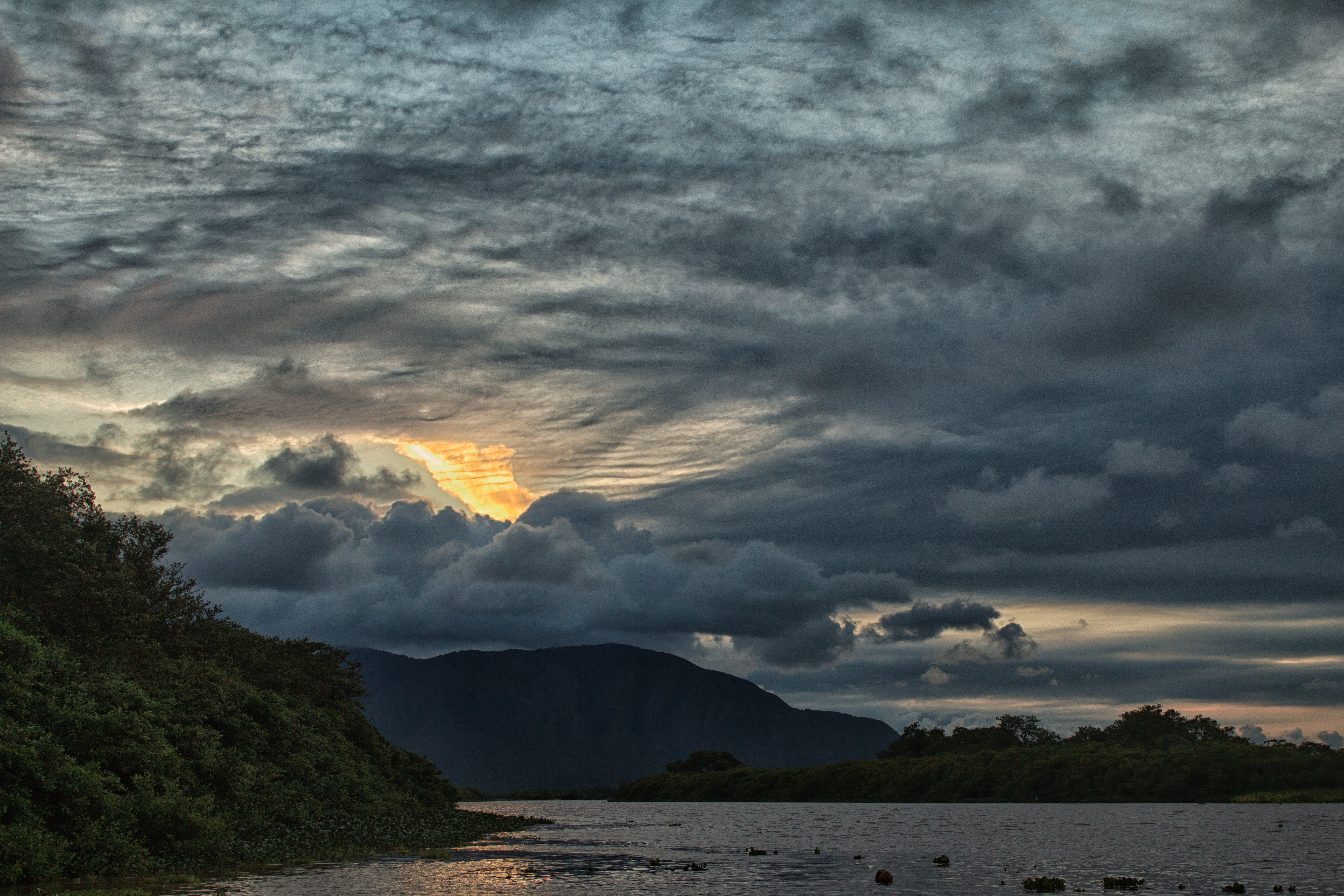 Unare River mouth | Desembocadura del Río Unare